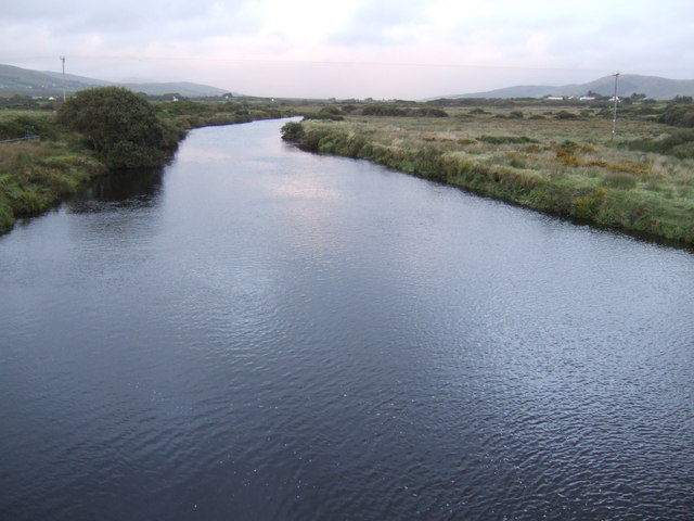 The Inny River View upstream from the N70.